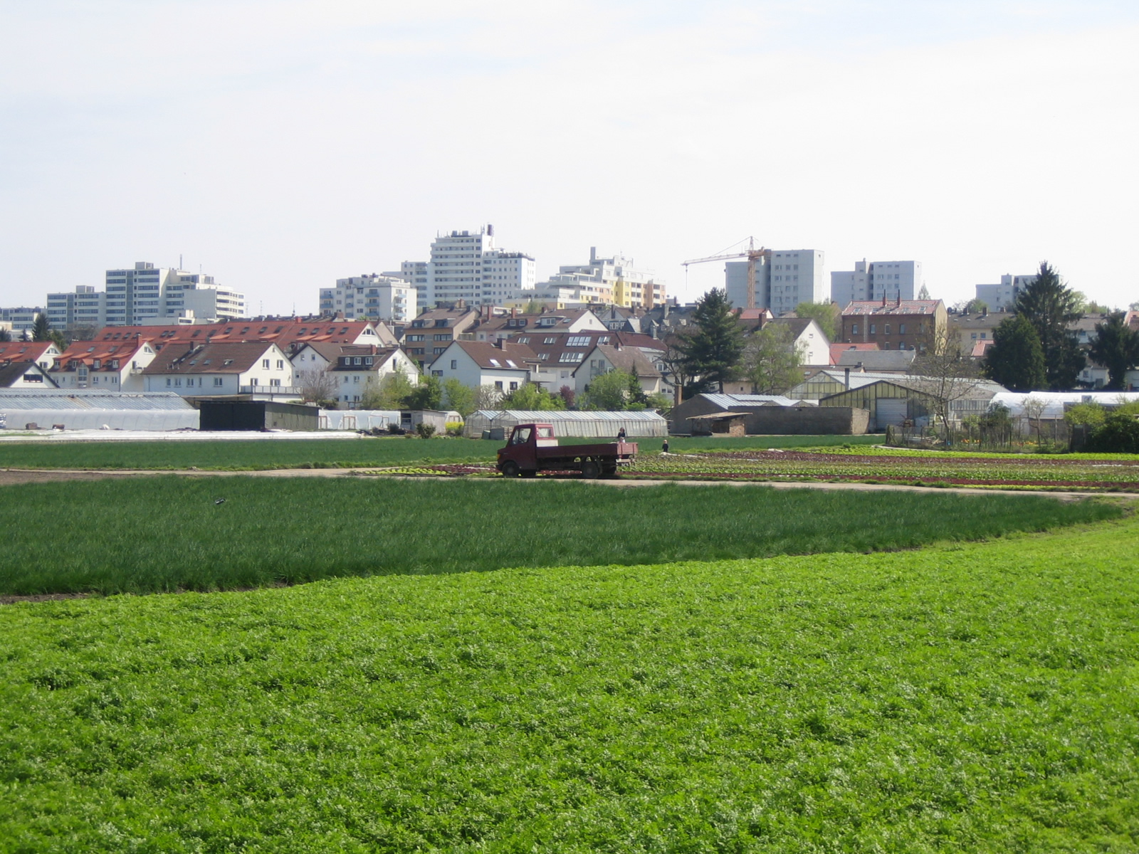 "Frankfurt-Oberrad", district of Frankfurt, Main, Germany.